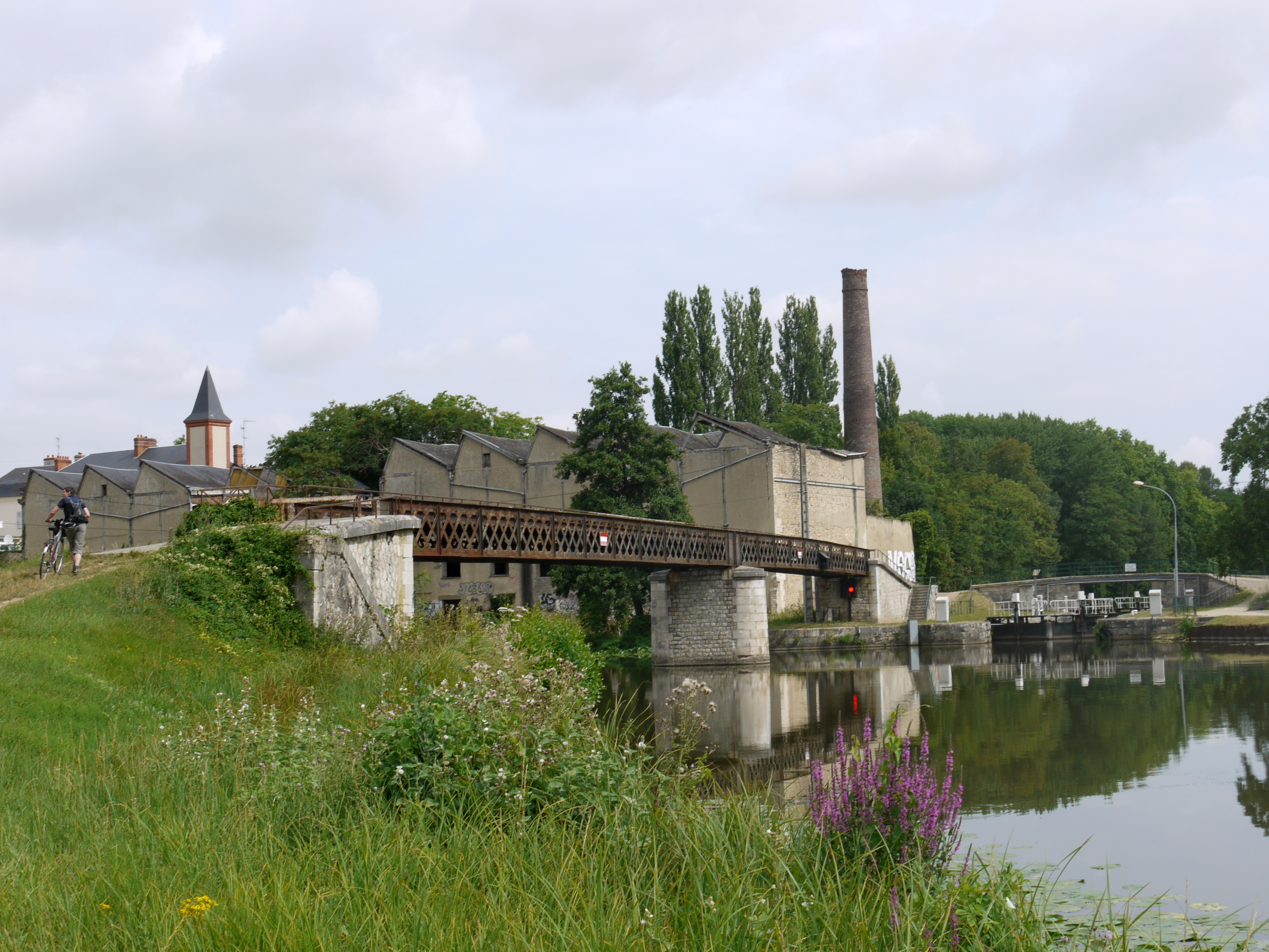 Junction between the canals Briare, Orleans and Loing in the hamlet of Buges ( Corquilleroy) near Montargis, France